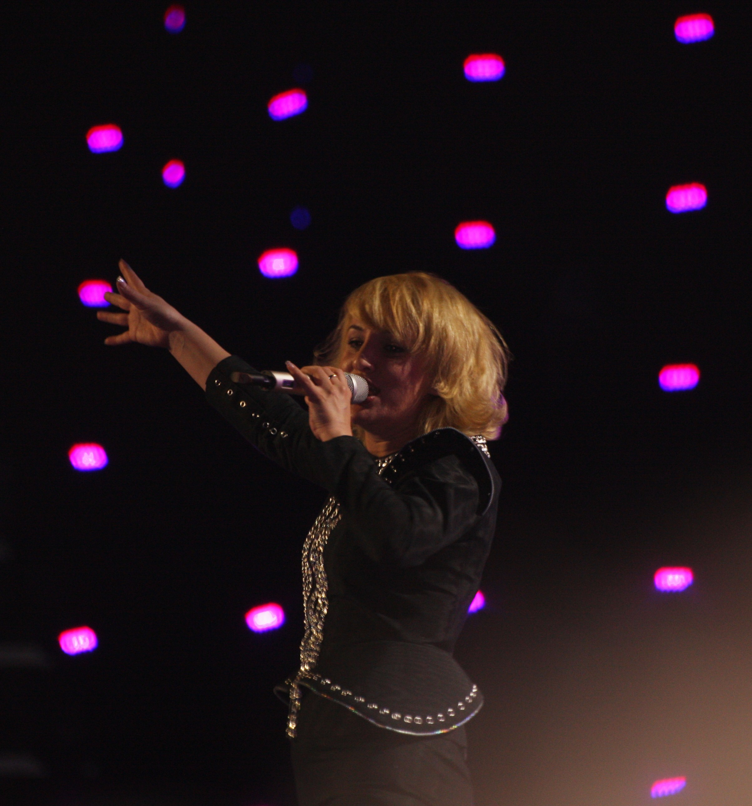 Juliana Pasha, Albania's artists at the ESC 2010, Telenor Arena, Norway.